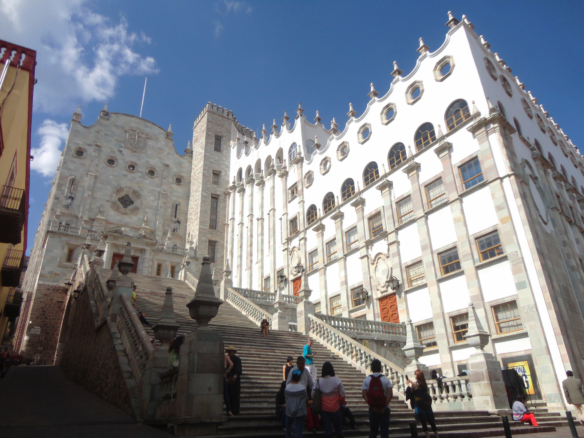 Edificio Central de la Universidad de Guanajuato - Guanajuato capital, México.